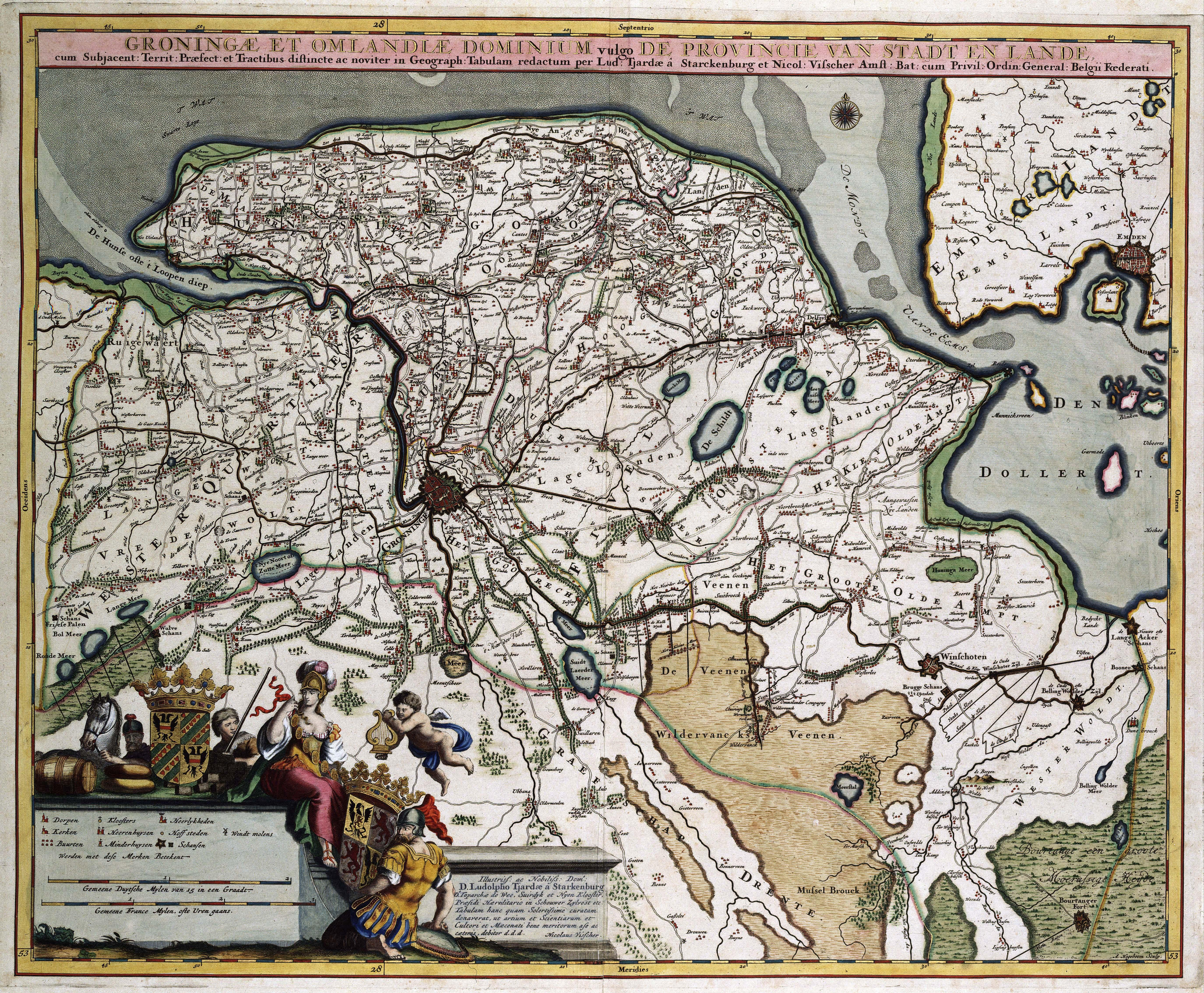 Old map of the city of Groningen and its surrounding area (Ommelanden)